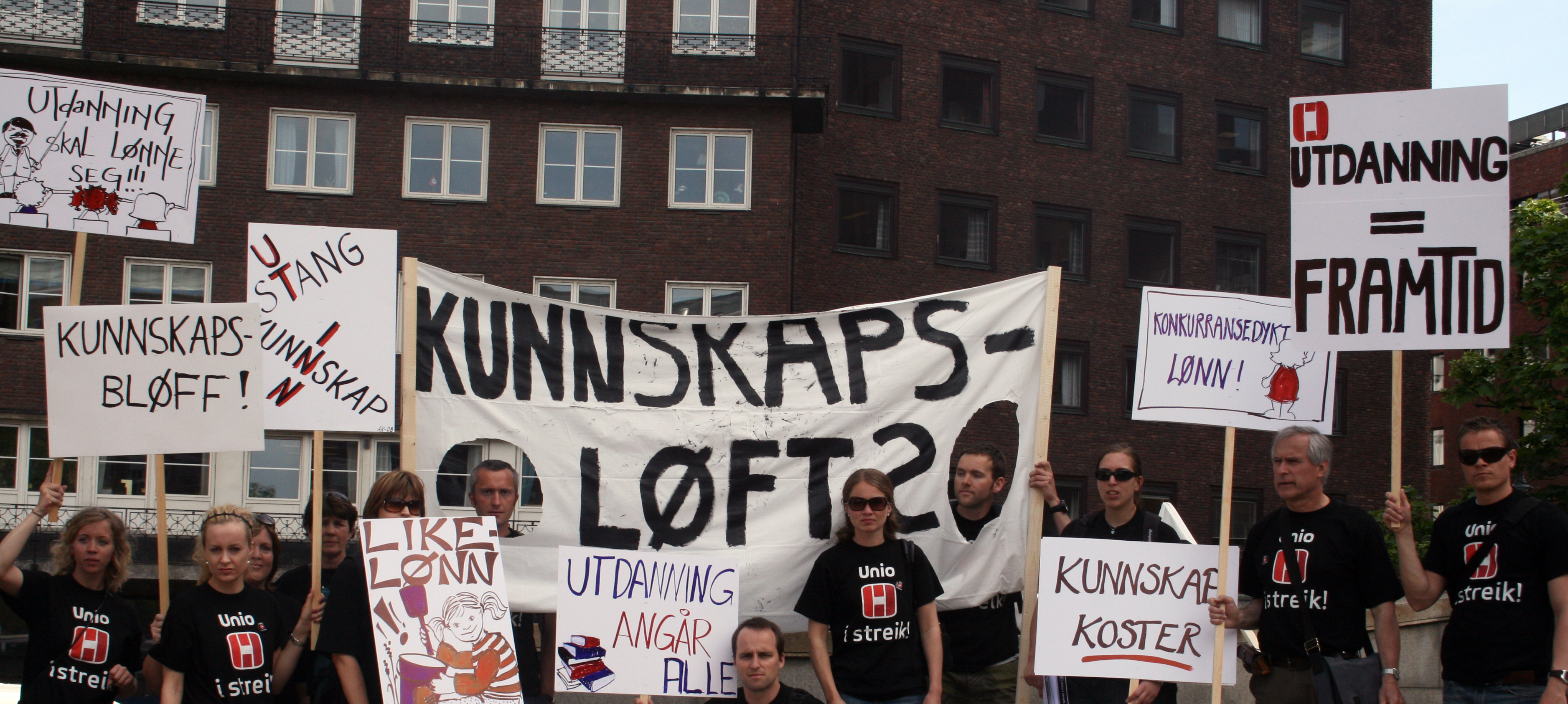 From a labor conflict in Oslo, Norway 2008 – teachers rallying outside Town Hall